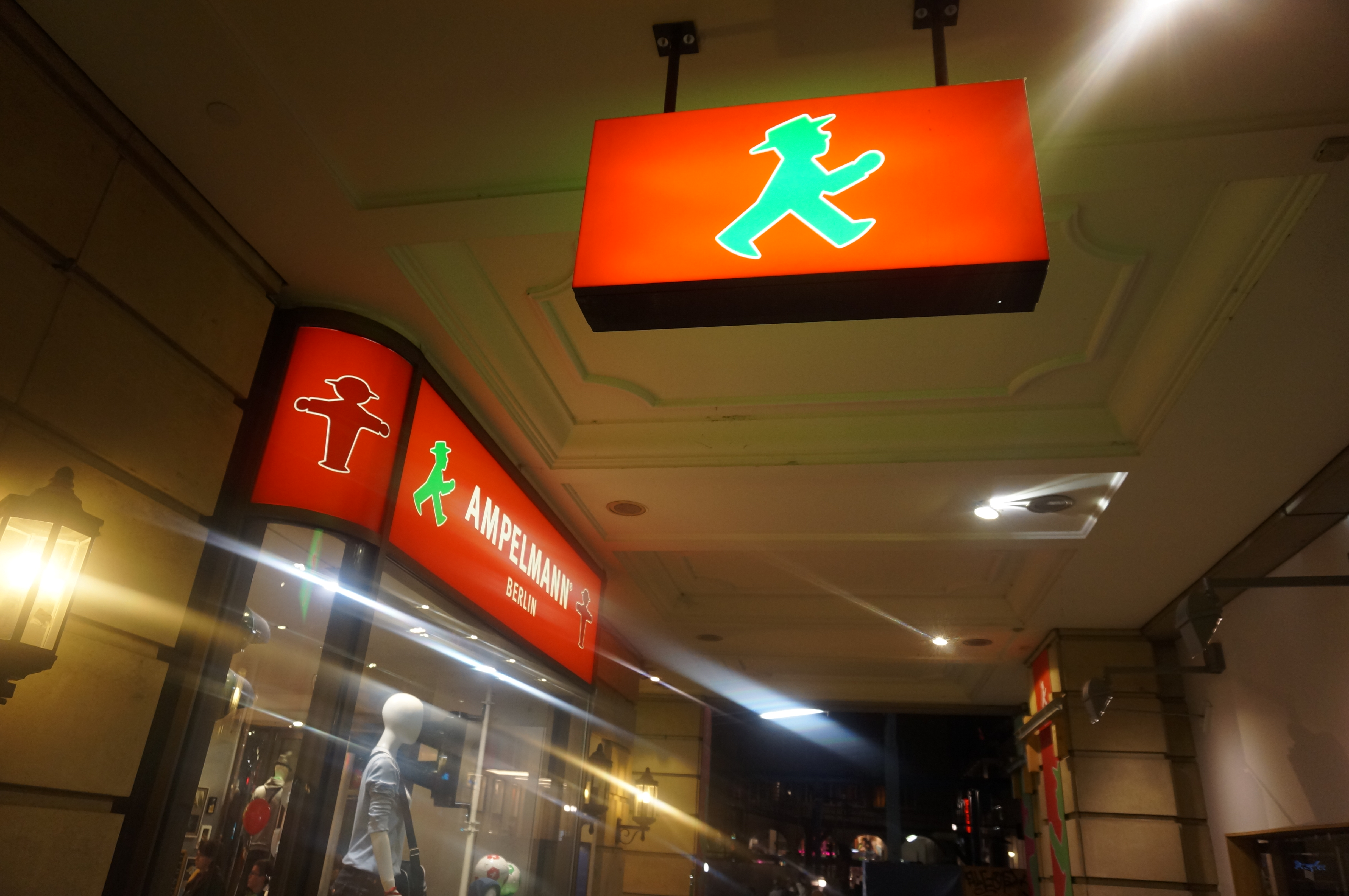 Berlin Ampelmann